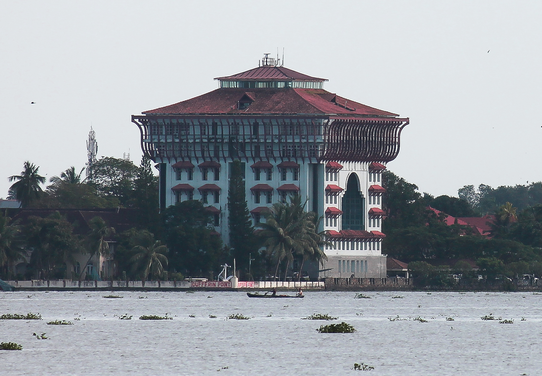 Cochin Port Trust Building. View from Northeast Direction. Dufferin Point can be seen from this angle.